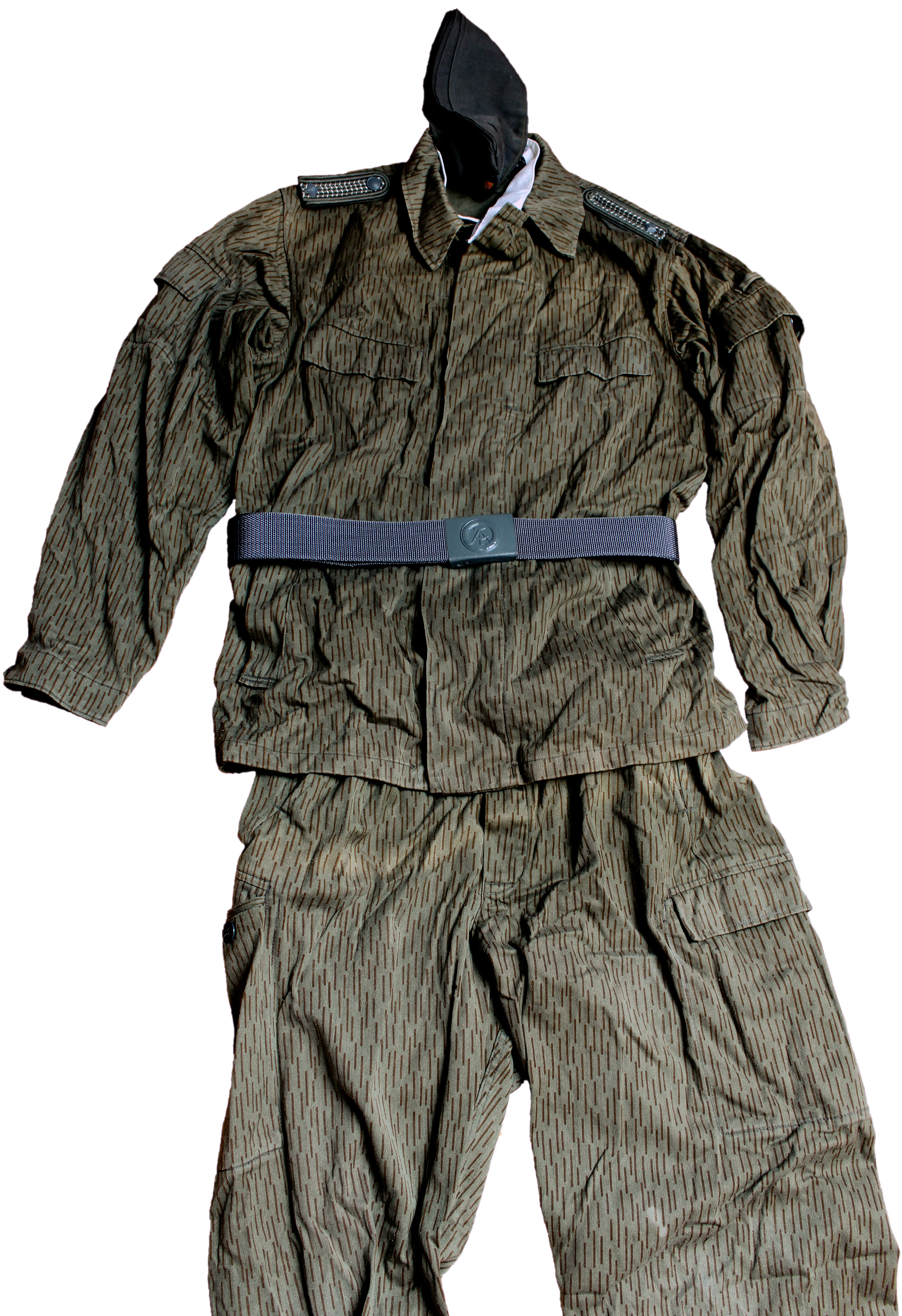 Battle Dress Uniform (summer) of the GDR National People`s Army, here Fanrich.